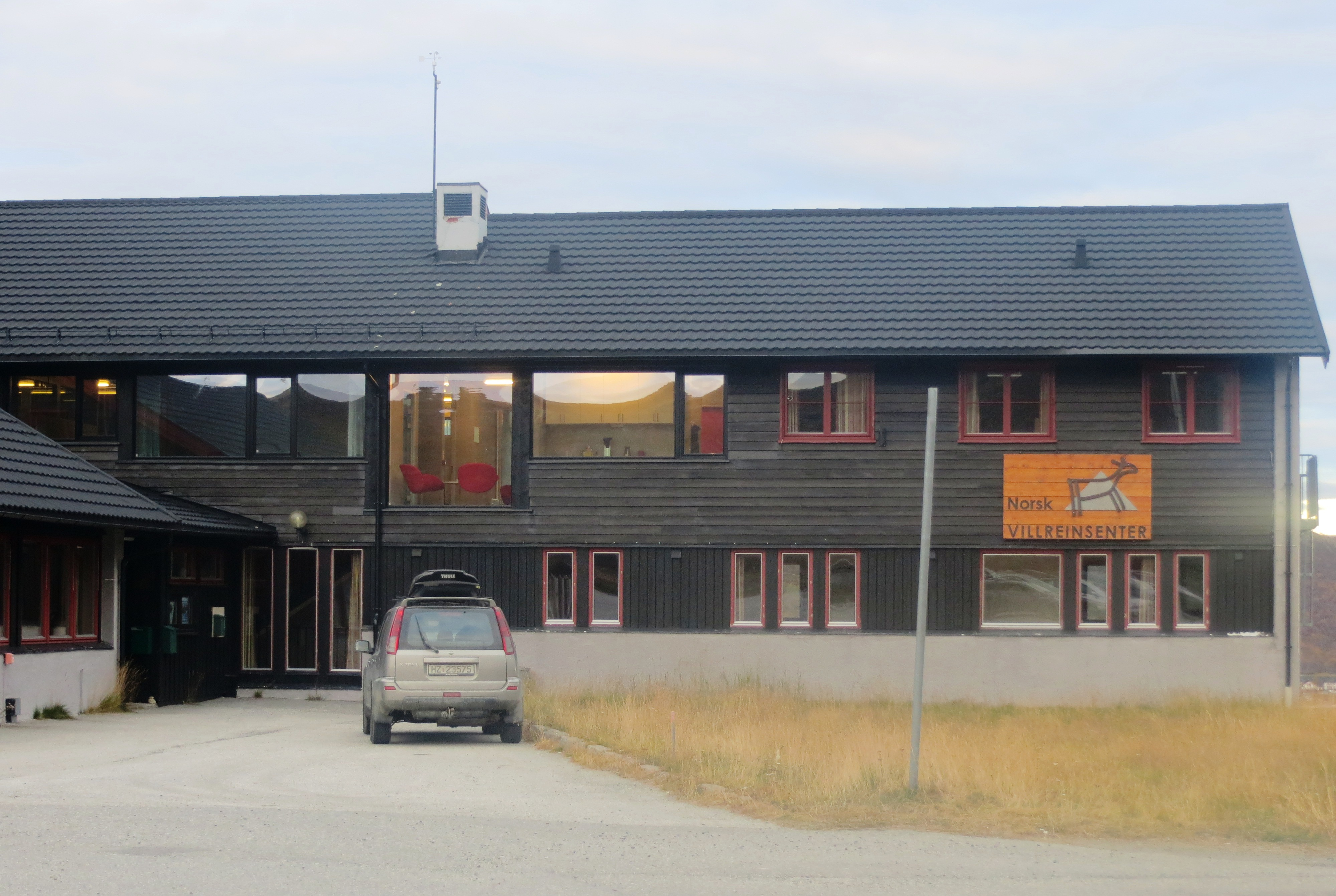 Norsk Villreinsenter (Norwegian Wildlife Reindeer Centre) at Hjerkinn, Dovre municipality in Oppland county, Norway